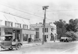 A view of the Corner of Maitland Avenue & Horatio Avenue opposite Central Park about 1926. Maitland Electric Company and Post Office are at left, Bank of Maitland is at right